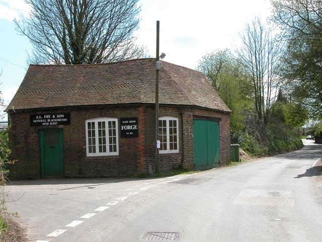 East Meon forge. This is right on the Northern edge of this square, but it's by far the most interesting feature within it!